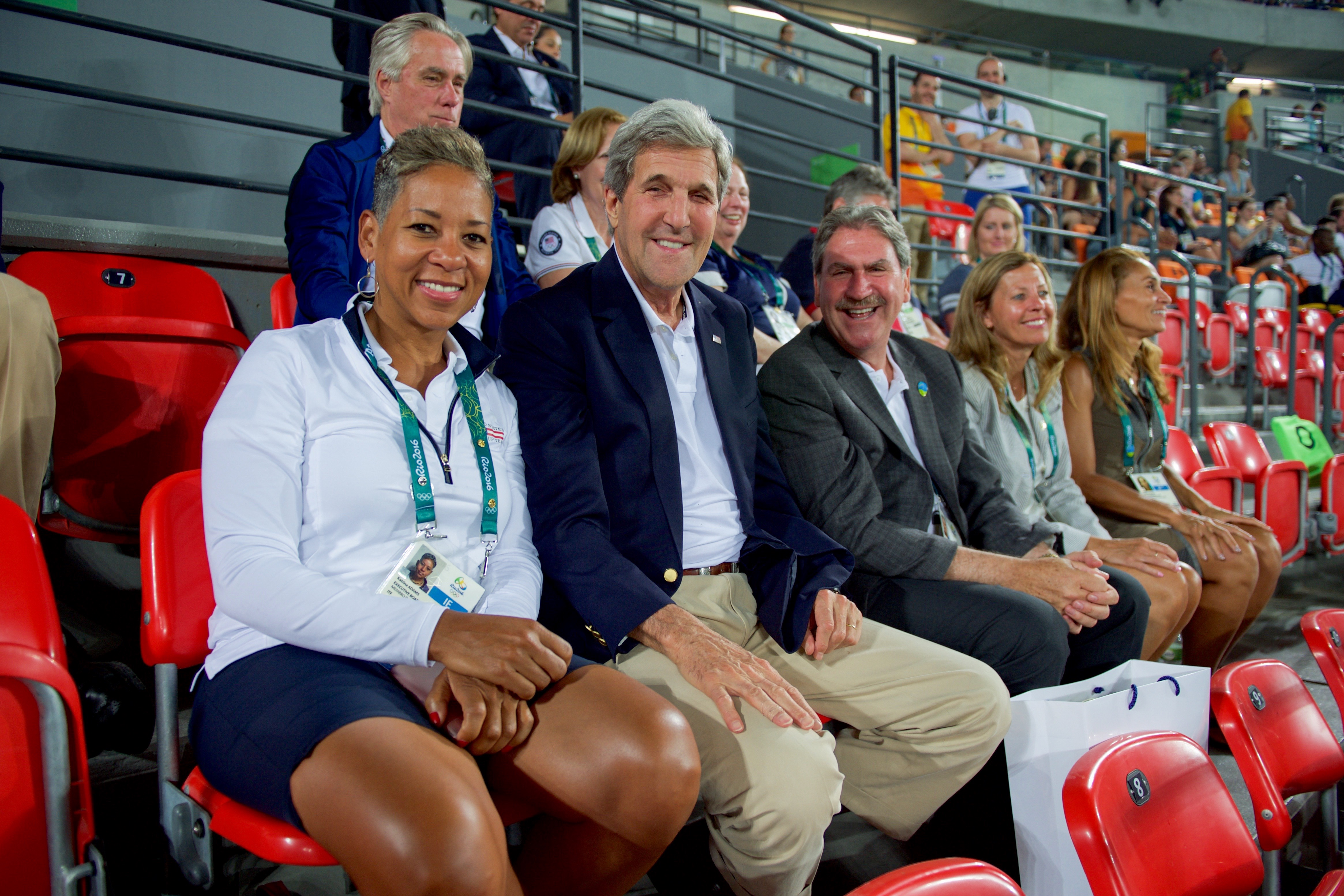 U.S. Secretary of State John Kerry sits with incoming United States Tennis Association President Katrina Adams and outgoing President Dave Haggerty as they watch U.S. tennis player Venus Williams play Belgian tennis player Kirsten Flipkens on August 6, 2016, during an Olympic tennis match at Olympic Park in Rio de Janeiro, Brazil, attended by Kerry and fellow members of the U.S. Presidential Delegation to the 2016 Summer Olympics. [State Department Photo/ Public Domain]